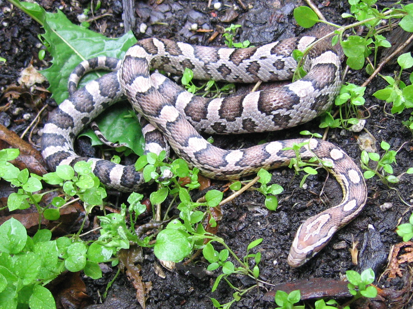 Anerythristic Corn snake Age: 1 year Size: 2'6" Name: Mordecai